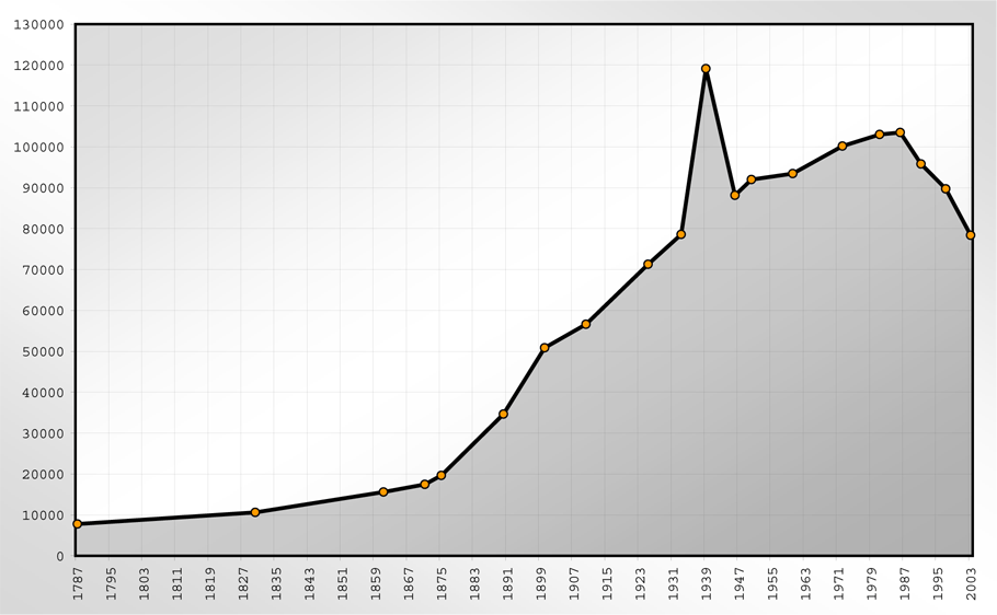 This image shows the population statistics of Dessau (Germany).